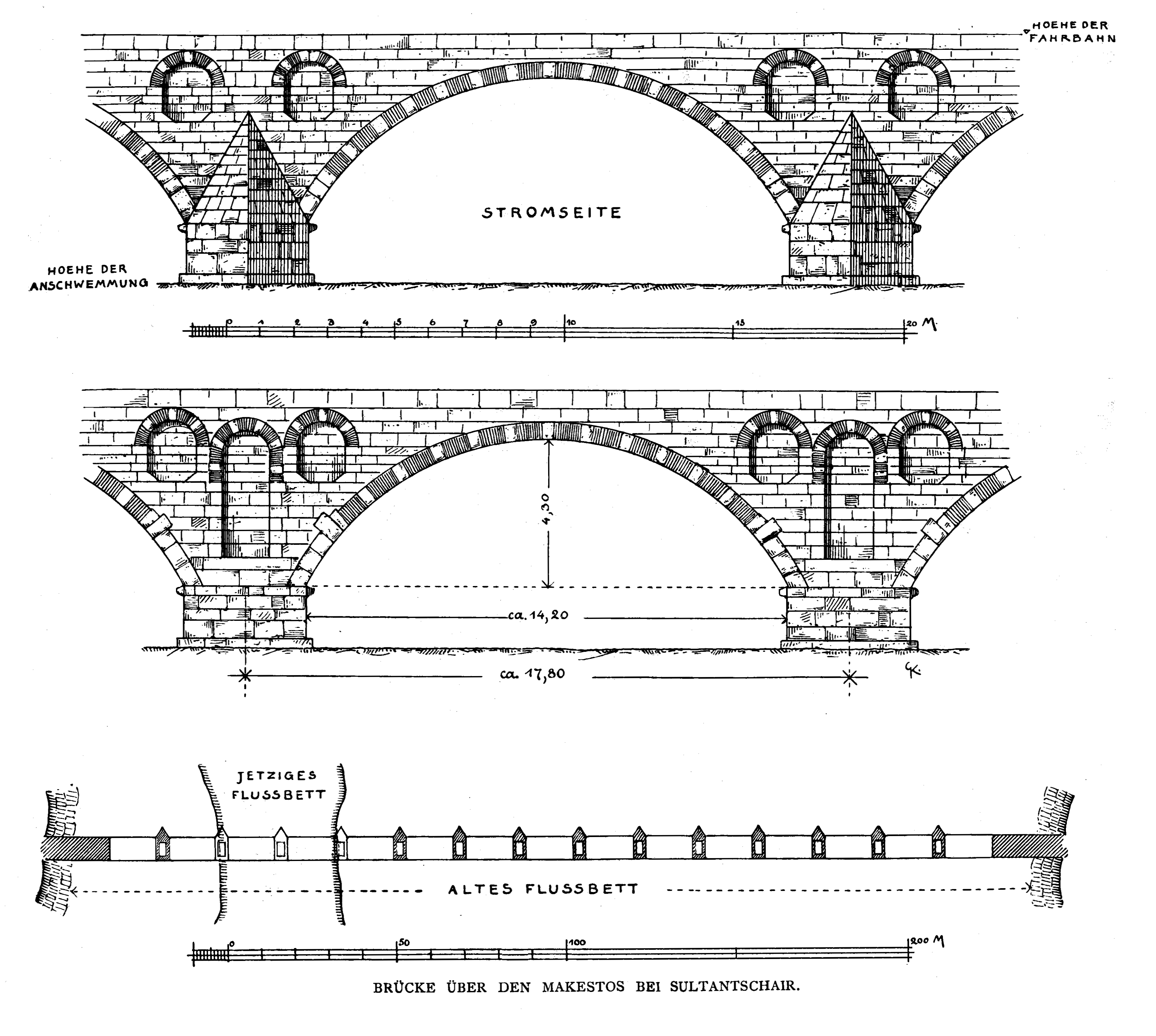 Roman bridge over the Makestos at Balıkesir, Mysia, Turkey. The 234 m long and 6.35 m wide bridge is believed to be constructed in the 4th century, making it one of the oldest segmented arch bridges of the world.